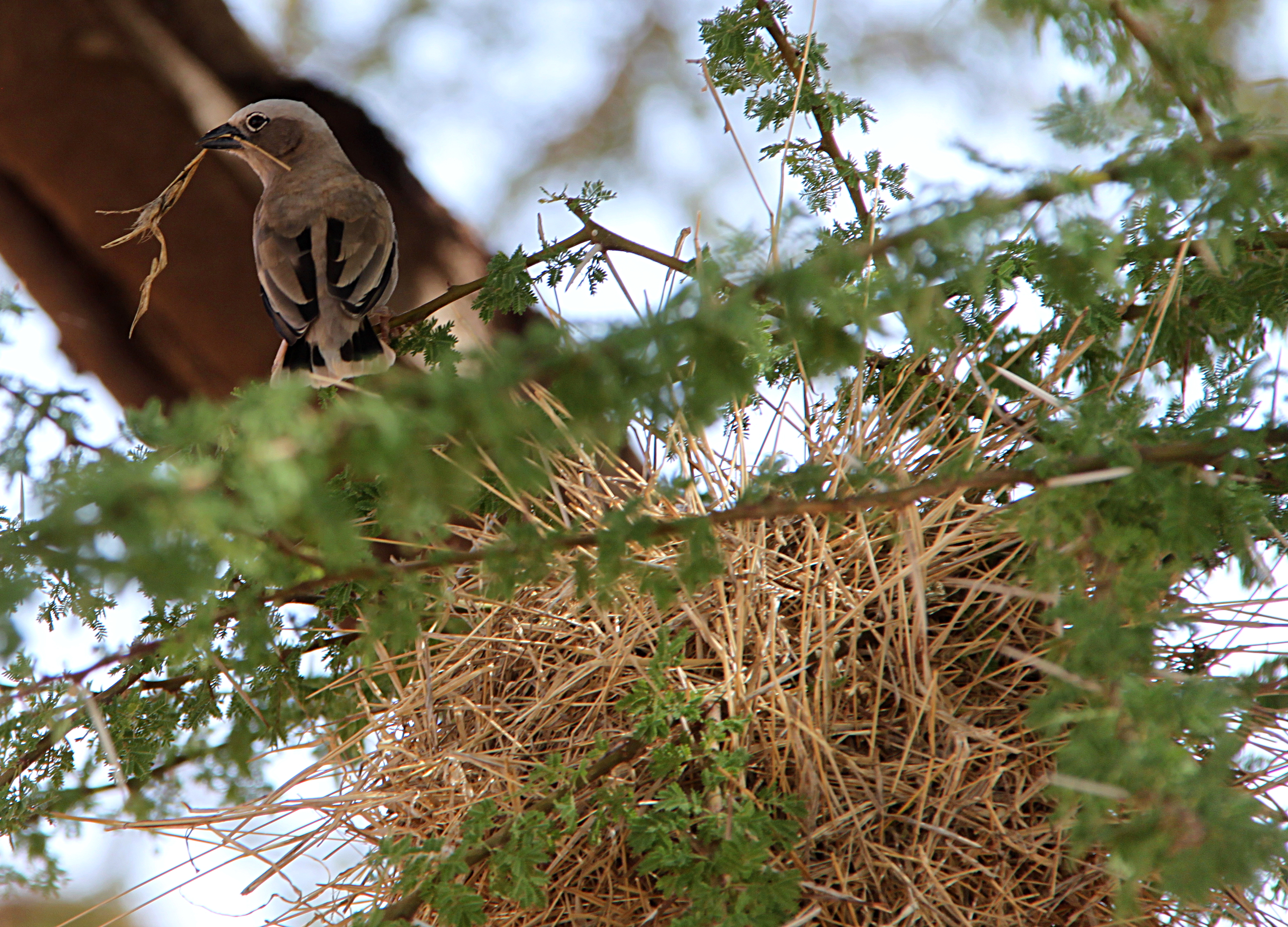 A grey-capped social weaver, Pseudonigrita arnaudi, photographed at Amboseli Iremito gate